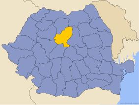 Location of Mureș County in Romania.